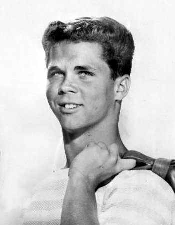 Publicity photo of teen actor Tony Dow promoting his role as Wally Cleaver on the ABC television series Leave It to Beaver.